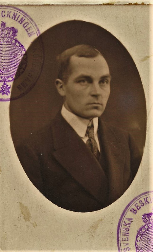 Foto is from official application for traveling in Sweden. Archive is official